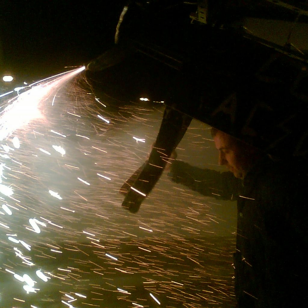 Sebastianas Freamunde Fire Cow Start